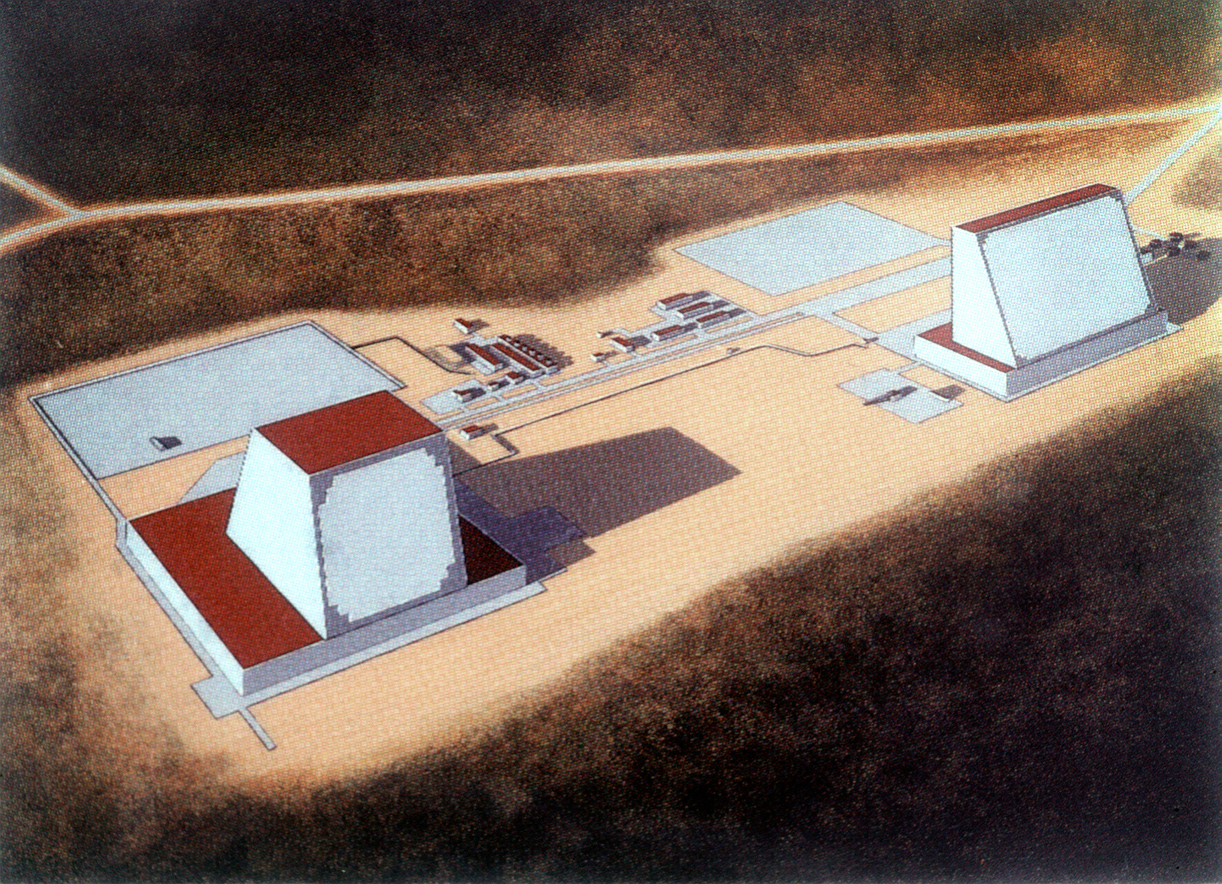 An artist's concept of the receiver and transmitter of the Soviet large phased-array ballistic missile detection and tracking radar at Pechora.